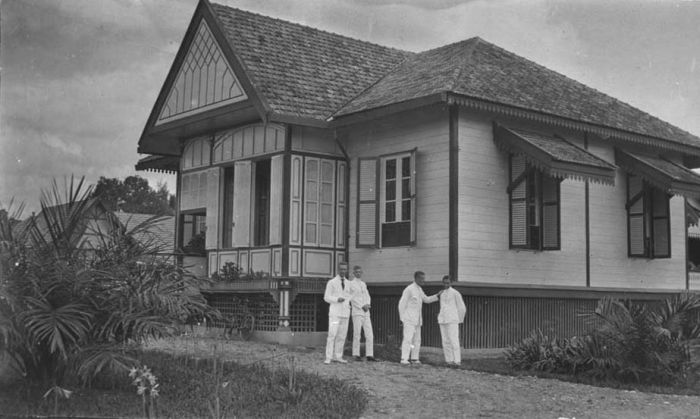 Men in front of the house of one of them